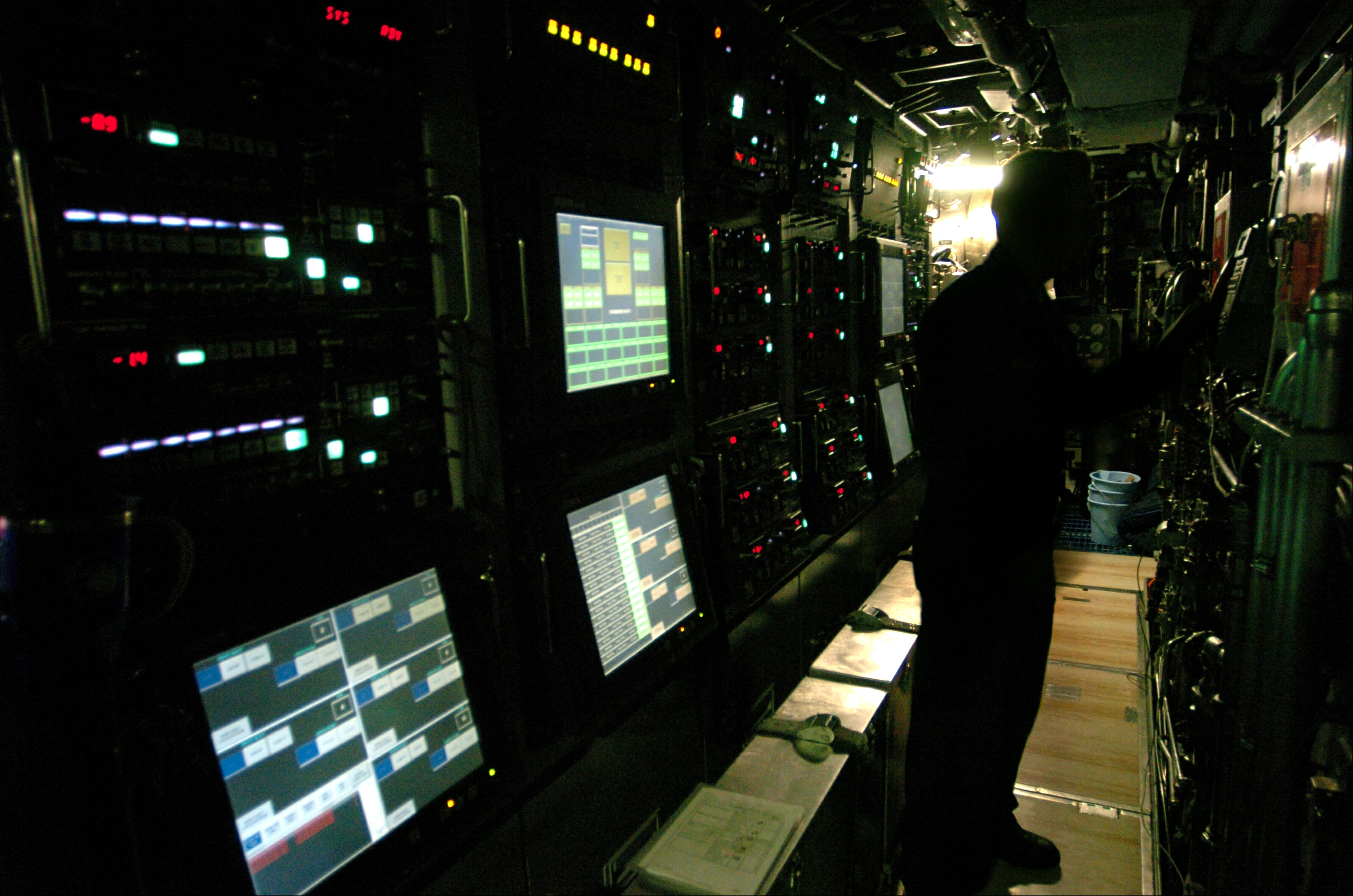 040822-N-2653P-370 Atlantic Ocean (Aug. 22, 2004) – PCU Virginia (SSN 774) has one of the most advanced torpedo delivery systems in the fleet. In addition to torpedoes, the Virginia-class will be armed with Tomahawk cruise missiles and has been designed to host the Advanced SEAL Delivery System (ASDS) and Dry-Deck Shelter to support various missions. Virginia is the Navy’s only major combatant ready to join the fleet that was designed with the post-Cold War security environment in mind and embodies the war fighting and operational capabilities required to dominate the littorals while maintaining undersea dominance in the open ocean.